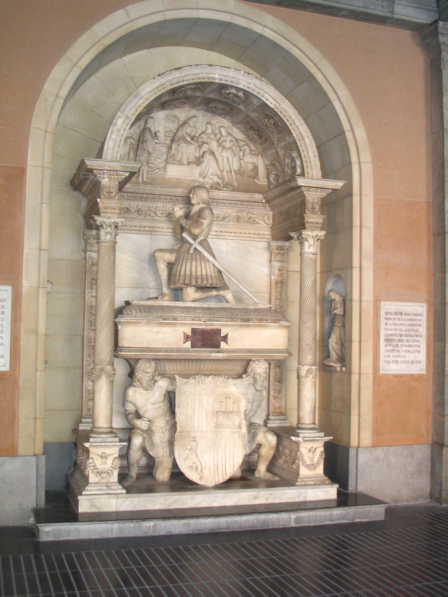 Sculpture at the monastery of Montserrat.